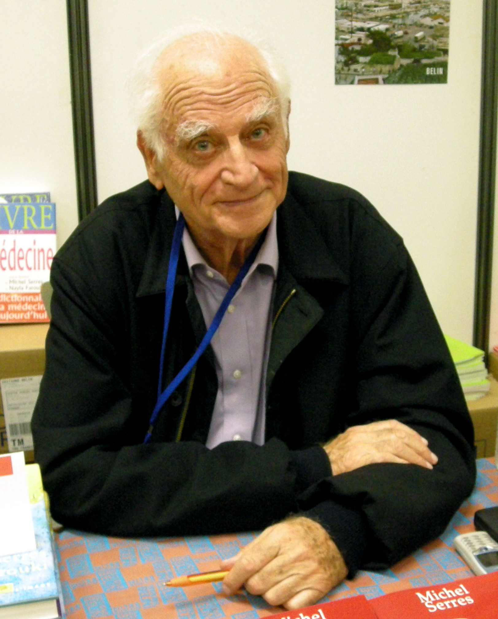 French philosopher Michel Serres at the 19th International Festival of Geography held in Saint-Dié-des-Vosges in October 2008